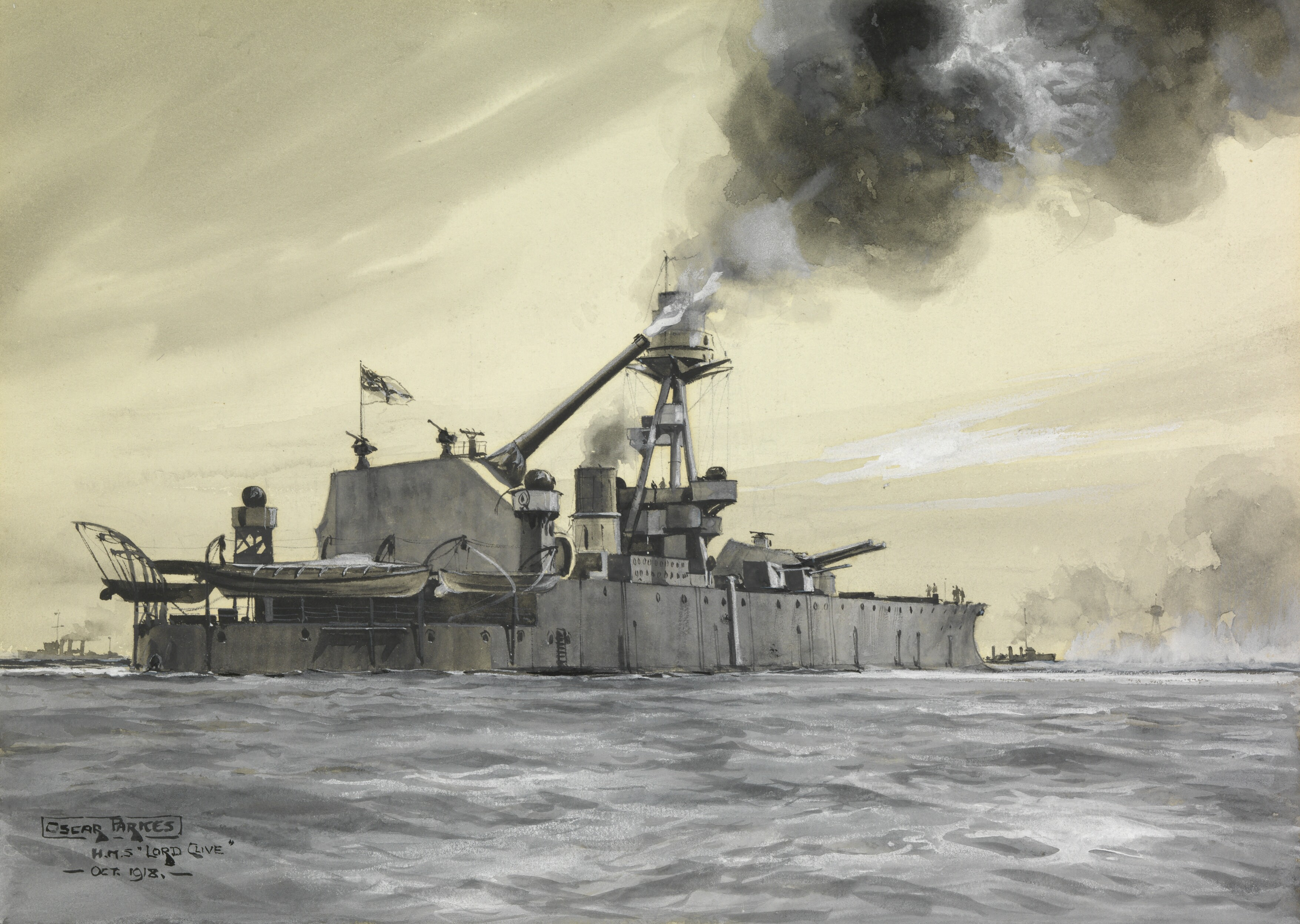 HMS Lord Clive - shelling the German forts on the Belgian Coast with her 18-inch gun image: a starboard stern quarter view of a large warship at sea, firing her large gun.